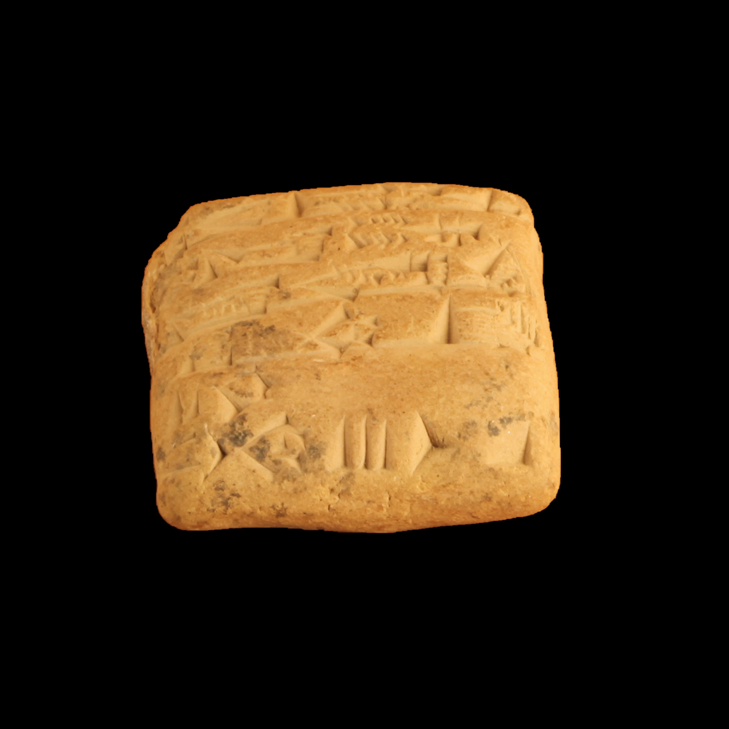 Transfer of cattle to be delivered in Basa by Lugalzida